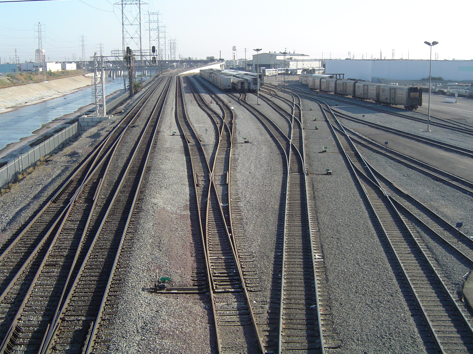 Photographed and uploaded by user:Geographer. A rail yard in Los Angeles, next to Los Angeles River and Olympic Boulevard.